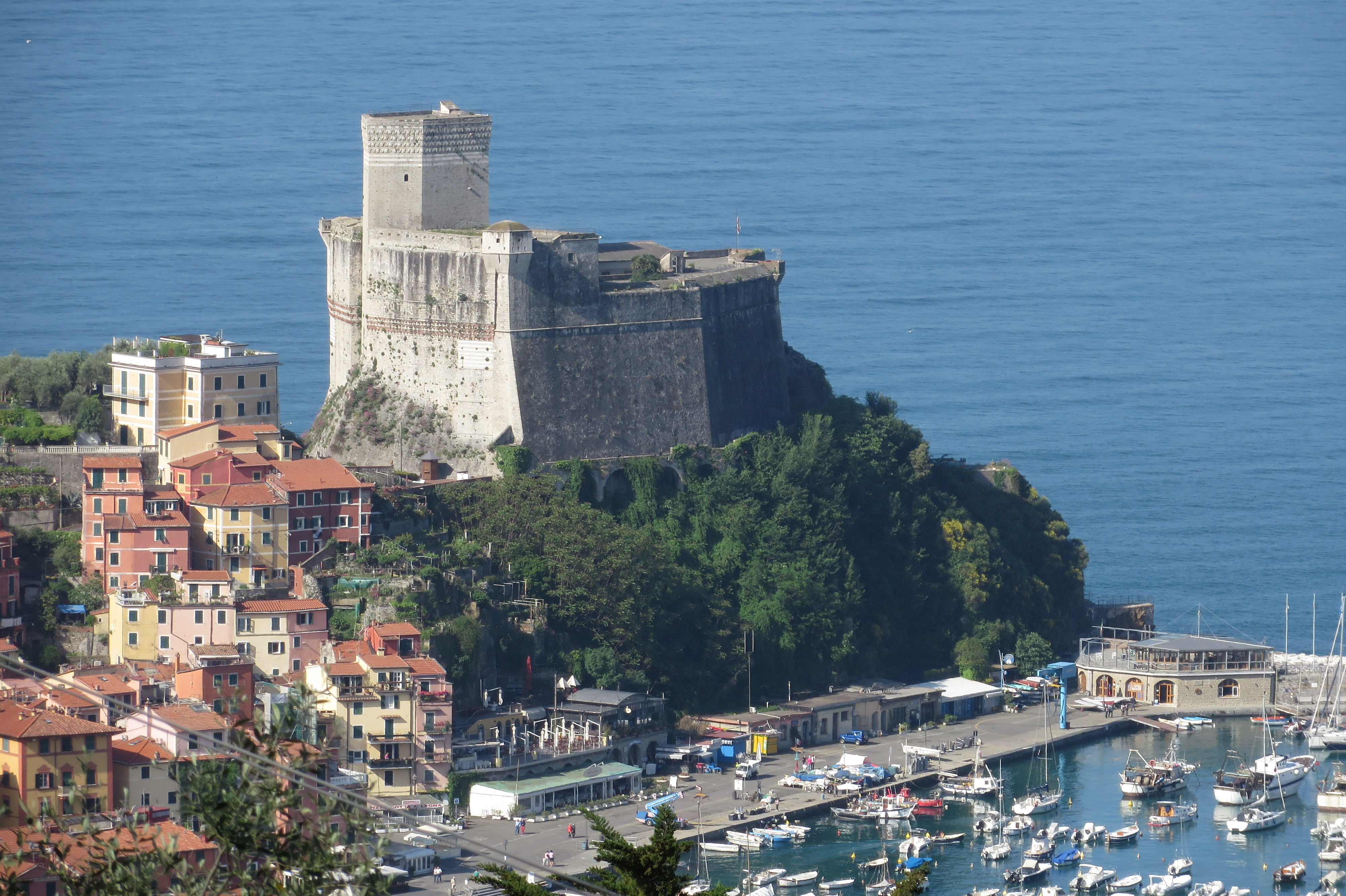 Castle of Lerici, Liguria